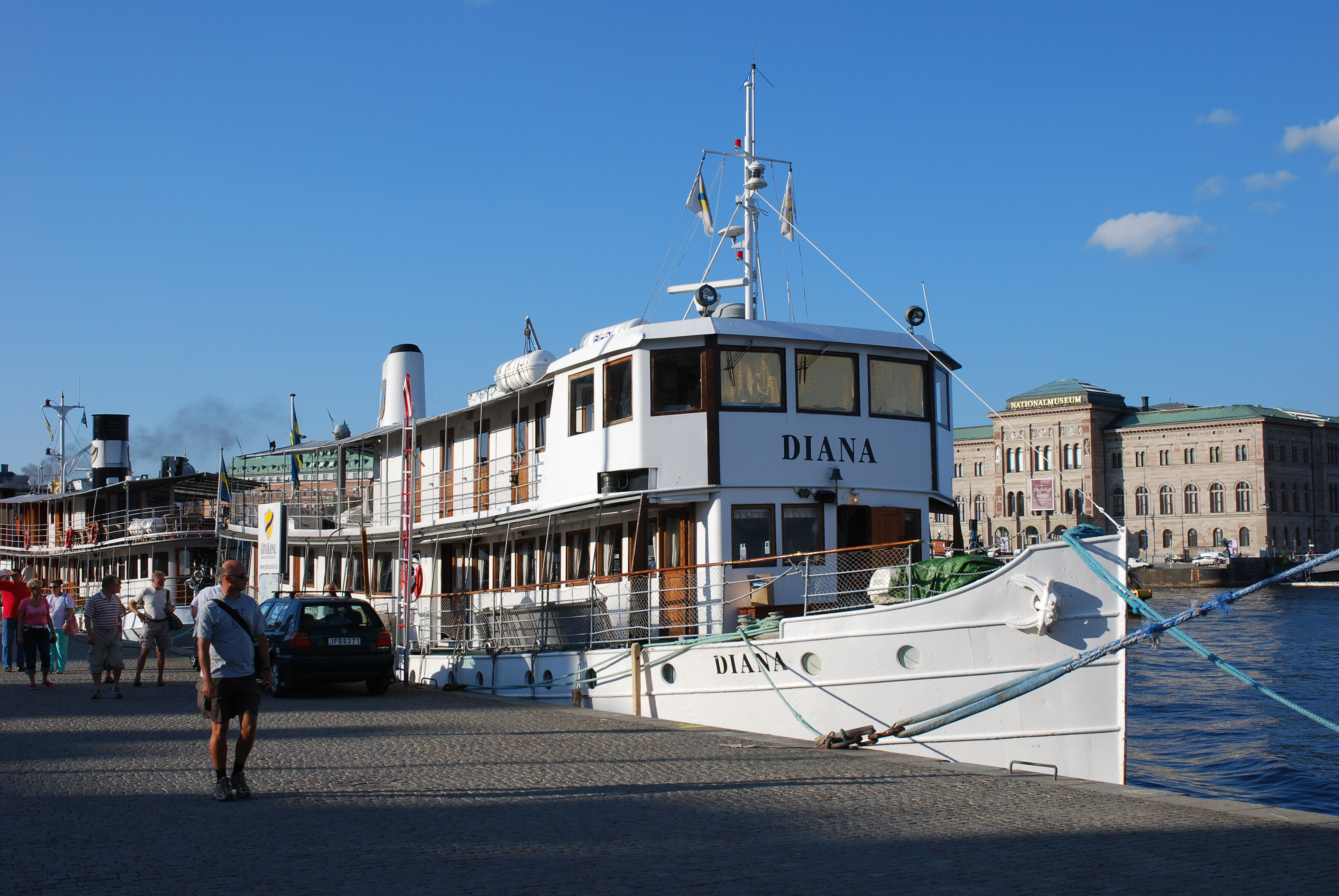 M/S Diana This is an image of the protected Swedish ship M/S Diana, with call sign SDRU .